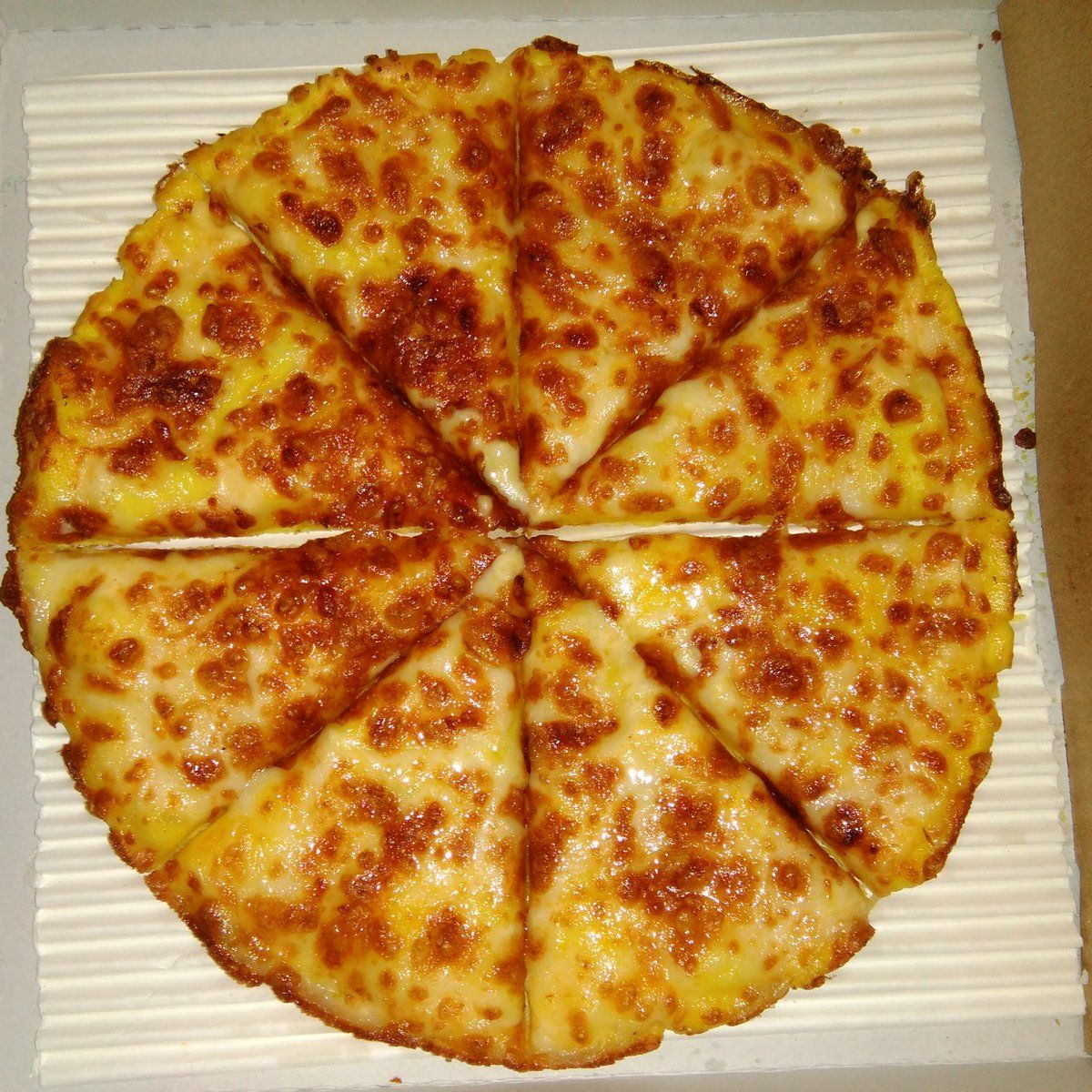 iranian Garlic bread